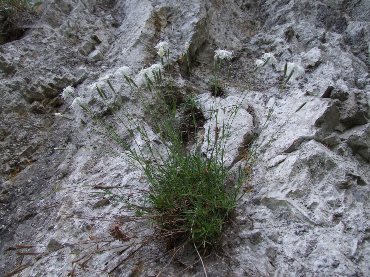 Dianthus plumarius ssp. praecox